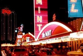 Neon facade of The Mint casino — formerly on Fremont Street in Downtown Las Vegas.